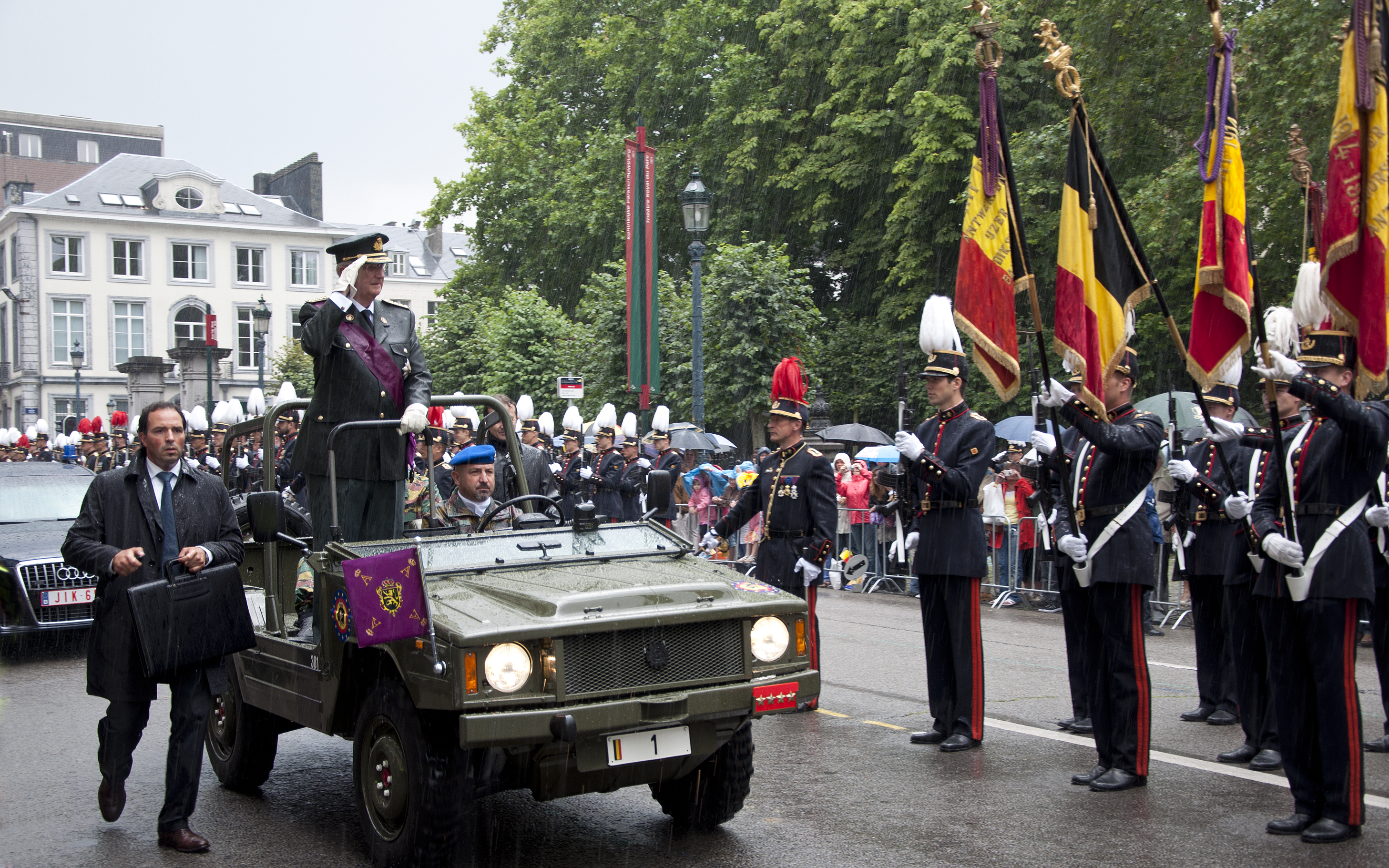 King Albert II of Belgium in pouring rain, during the military parade in Brussels on Belgians National Day july 21st